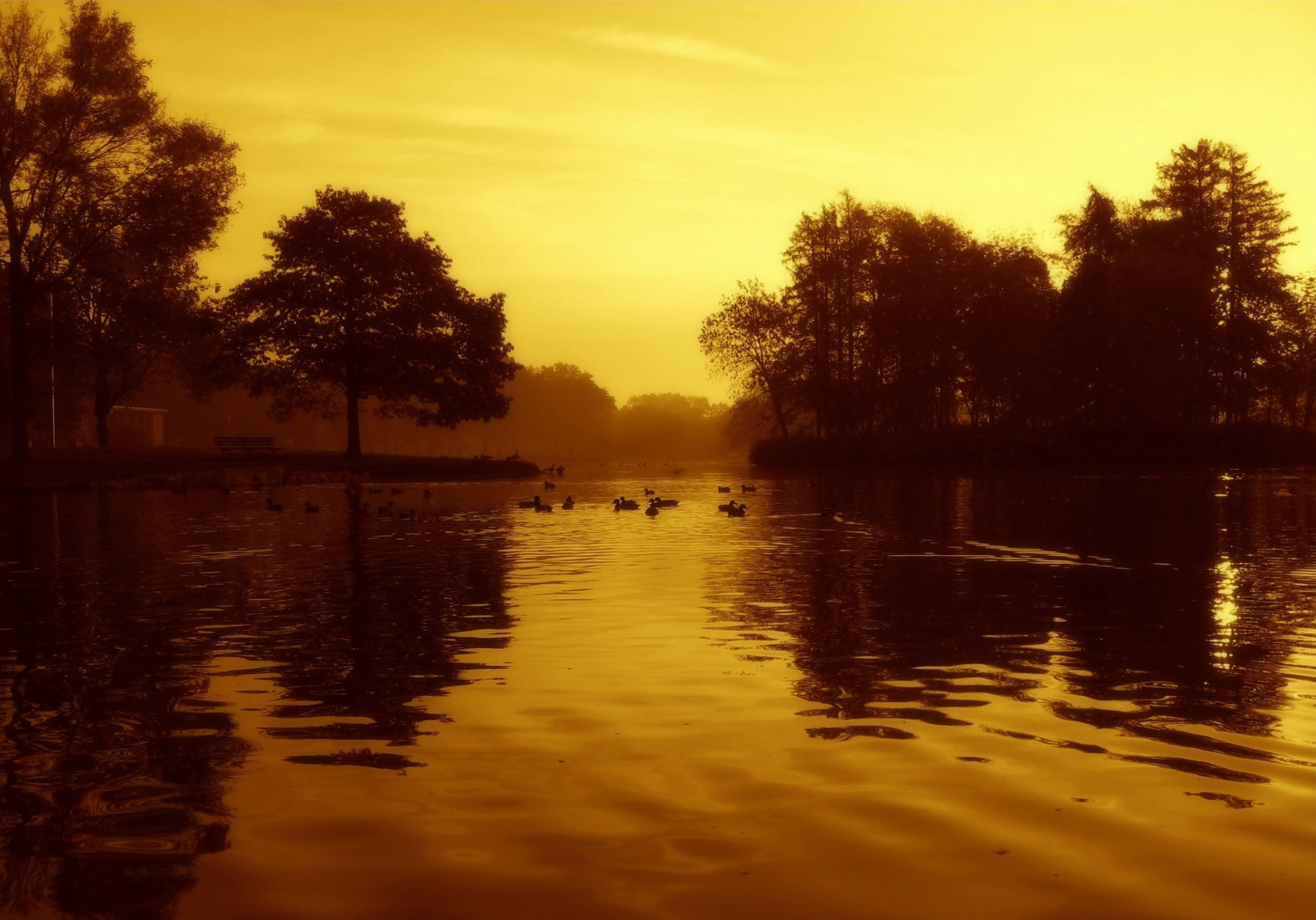 Ducks on the water at Jackson Park, Milwaukee, Wisconsin